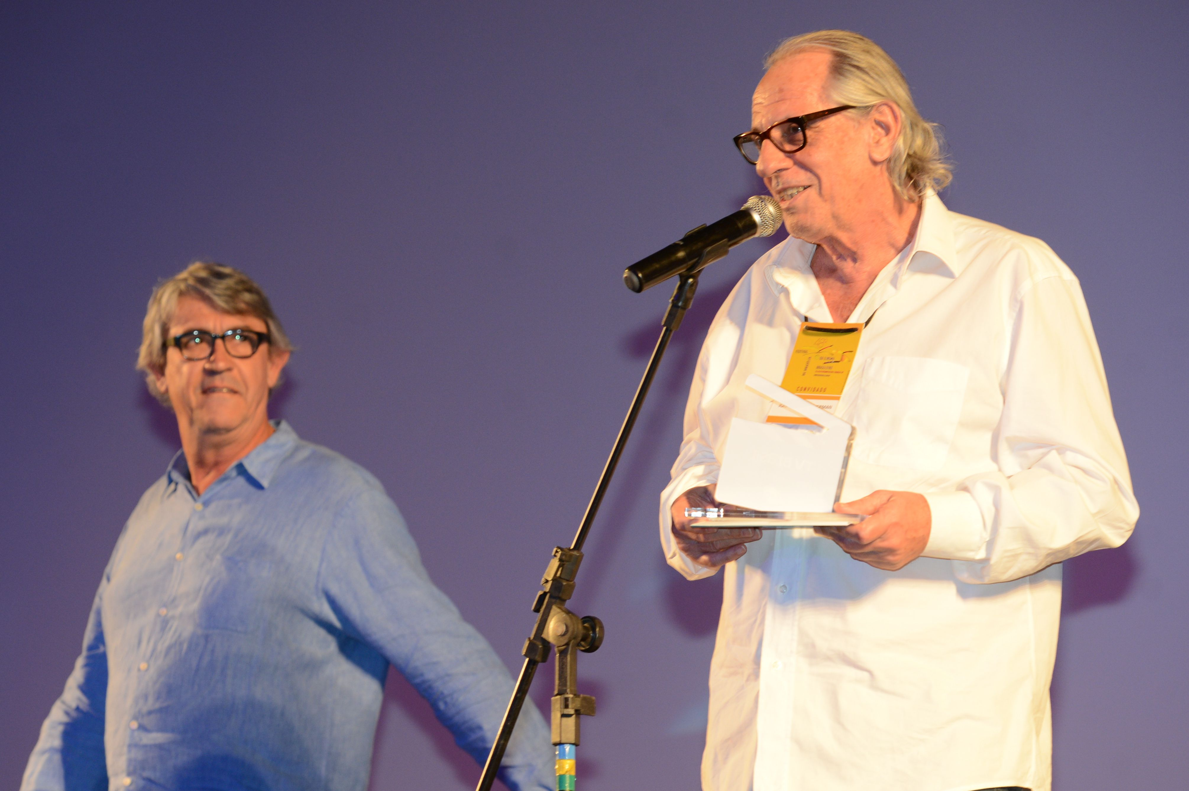 John Howard Szerman - photo by Fabio Rodrigues Pozzebom/Agência Brasil CCBY3.0